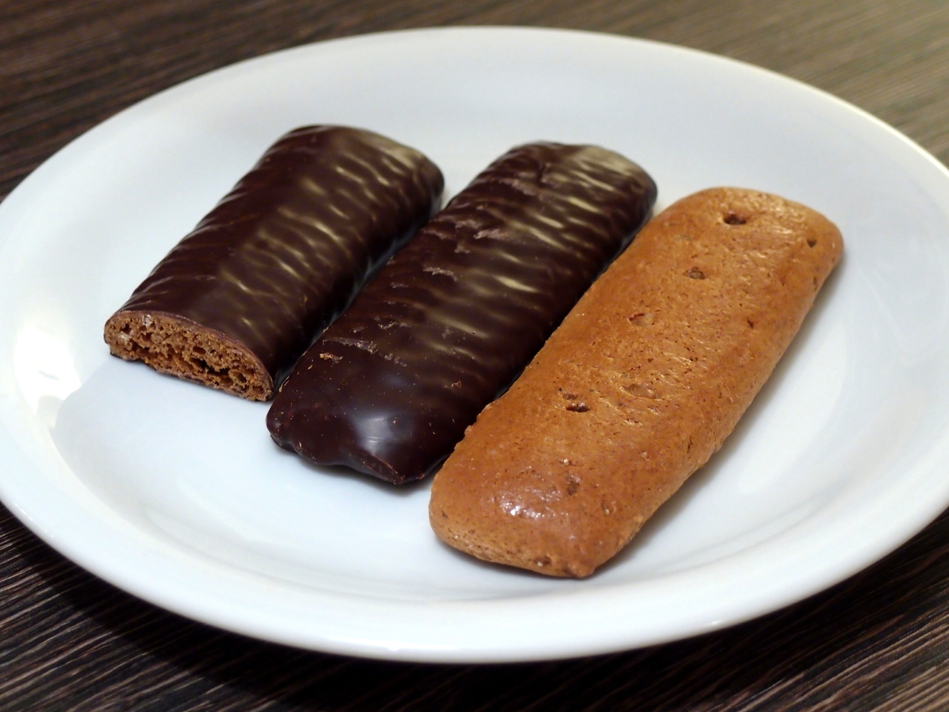 Aachener Printen, a local gingerbread from Aachen, Germany. From right to left: Pure (“spiced”), with chocolate, and with chocolate cut open. Manufactured by Lambertz, Aachen.